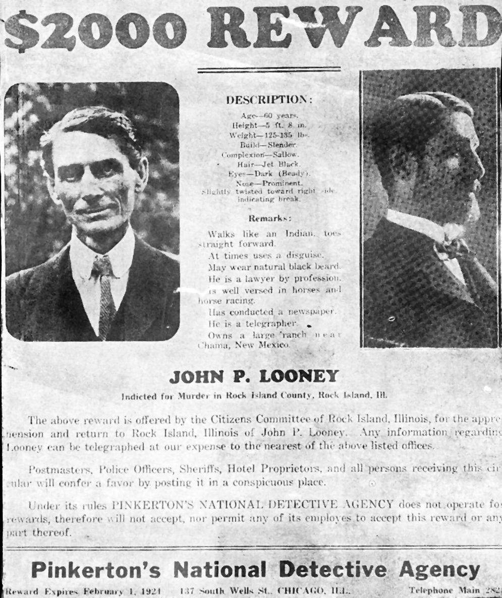 reward poster issued in 1922 for John Patrick Looney, wanted for murder